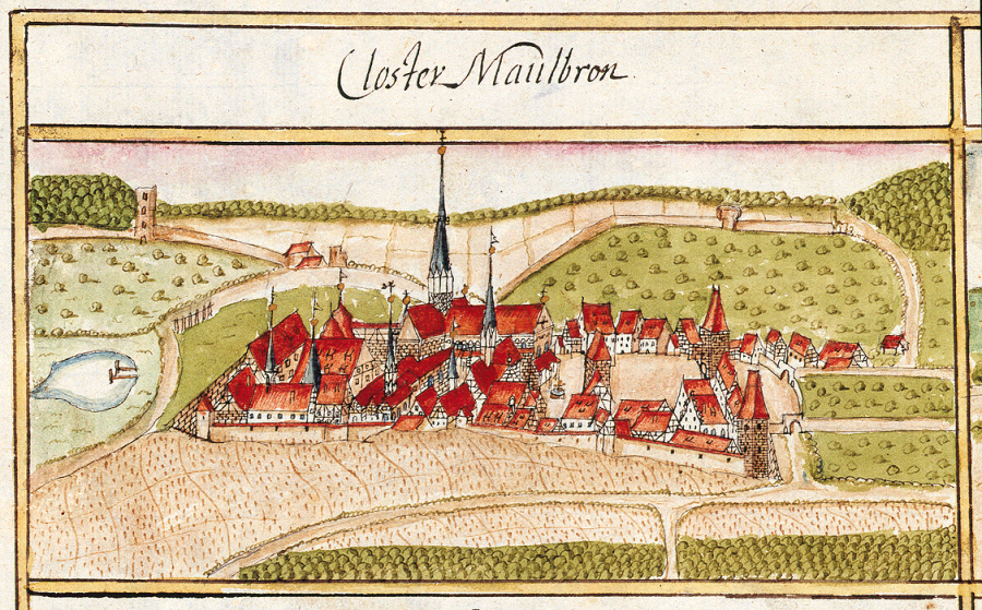 View of Maulbronn Monastery, from the forest register books created by Andreas Kieser